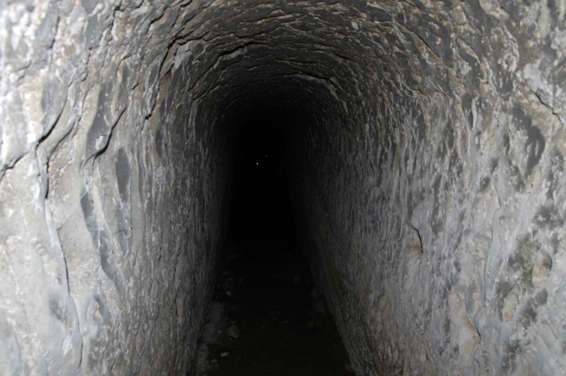 J. Matthew Harrington, personal digital image, November 16, 2006